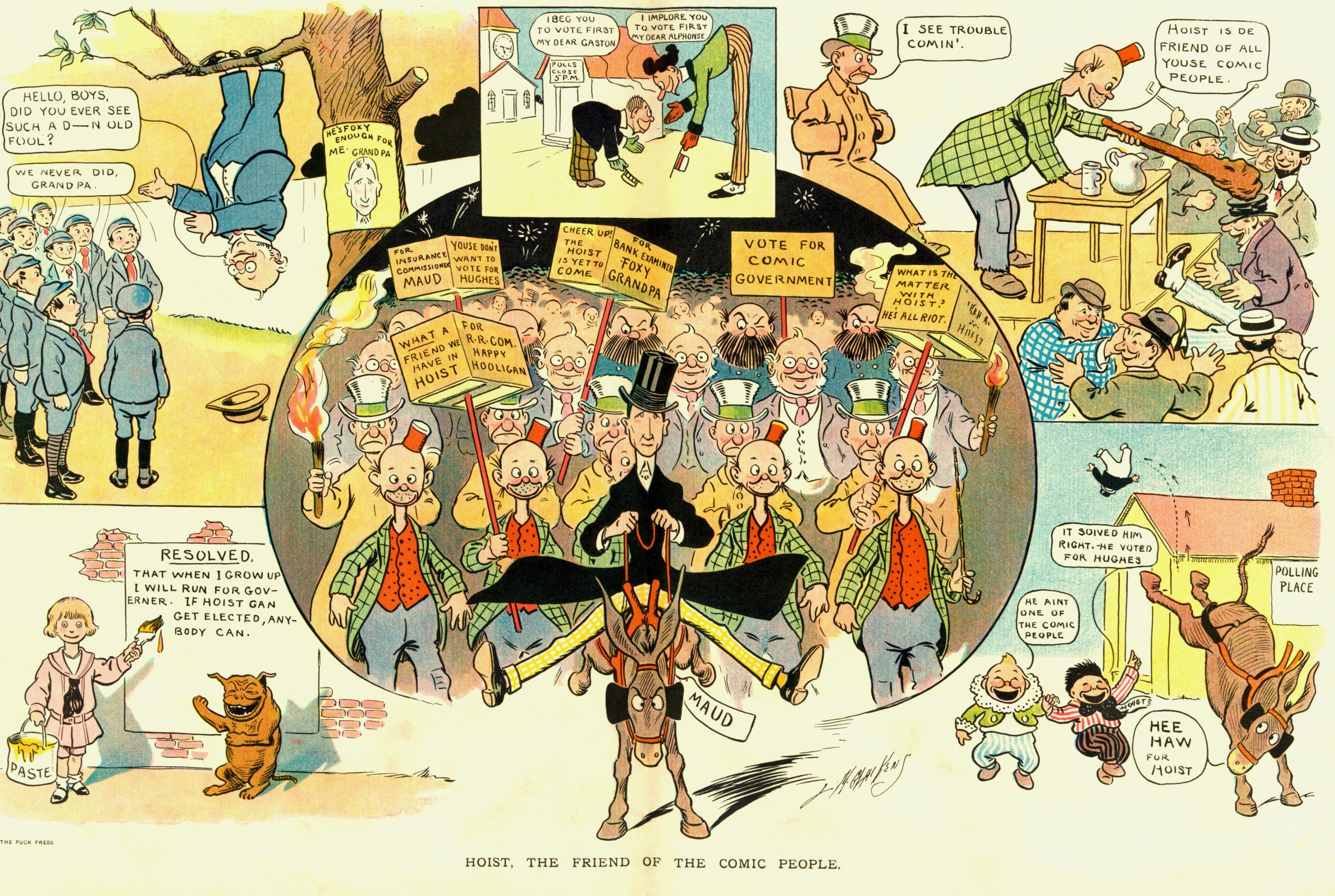 Political cartoon, Hoist, the friend of the Comic People. by Louis M. Glackens for Puck magazine, October 31, 1906. The characters seen, clockwise are: Foxy Grandpa by Carl E. Schultze, Alphonse and Gaston by Frederick Burr Opper, Happy Hooligan by Frederick Burr Opper, And Her Name Was Maud by Frederick Burr Opper, The Katzenjammer Kids by Rudolph Dirks, Buster Brown by Richard Felton Outcault, and at the center, all of the characters having a "rally" with "Hoist" sitting on the back of Maud, the mule. "Hoist" was William Randolph Hearst, who was the publisher of many newspapers--all of the comic characters in the illustration appeared in Hearst-owned newspapers. W. R, Hearst ran for governor of New York State in 1906; his opponent (and the winner of the election) was Charles Evans Hughes.